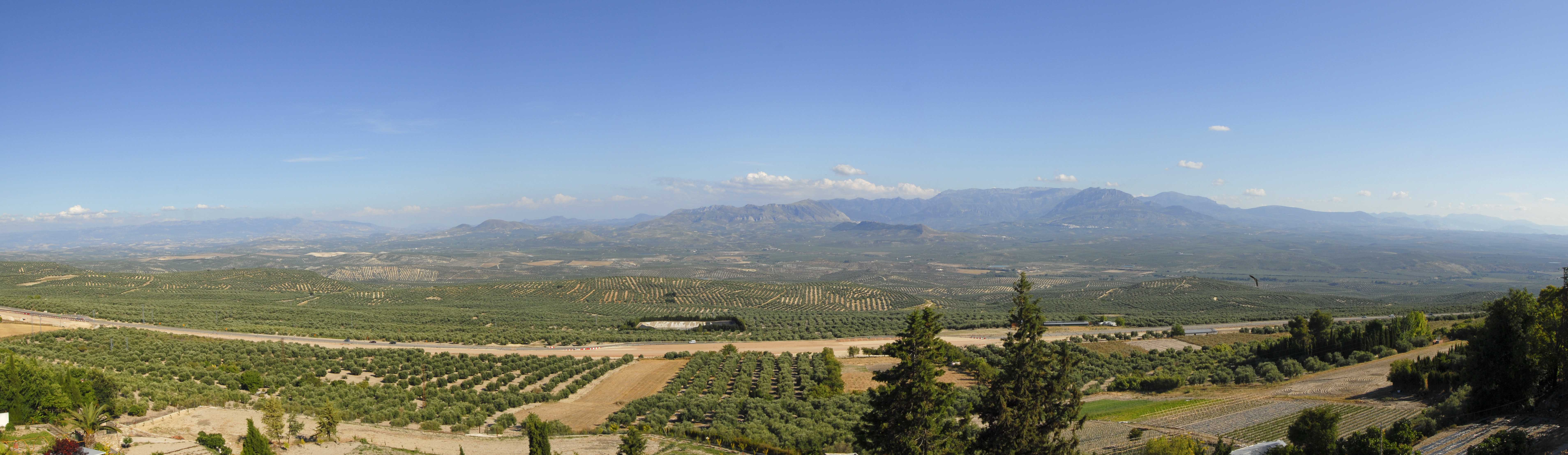 Panoramic View of Guadalquivir Valley from Baeza